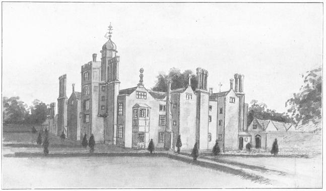 Hindlip Hall in Worcestershire. The house of Mr. Thomas Abbingdon. Priest Hole house, Police HQ and reserve government seat.